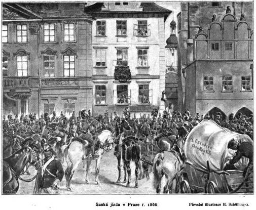 Saxon cavalry in Prague during early days of Austro-Prussian War. An illustration to book Válka z roku 1866 v Čechách, její vznik, děje a následky (1866 War in Bohemia - its origins, events and consequences) by Servác Heller (1845 - 1922)